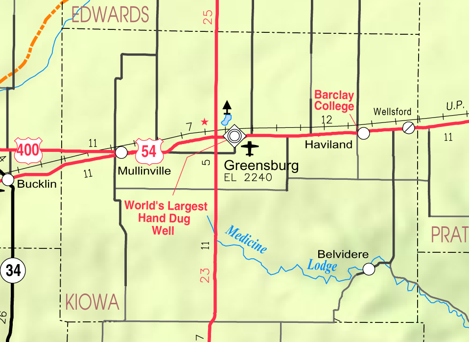 This map of Kiowa County, Kansas, USA, is copied at a resolution of 300 pixels/inch from the original PDF file.